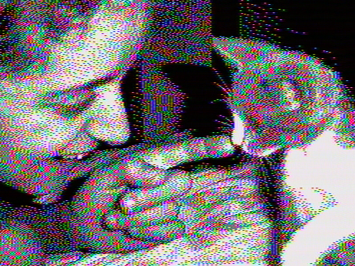 Interlaced highres monochrome ZX Spectrum image. Real picture taken from a Sinclair ZX Spectrum +3 using composite output and a PCI capture card. Snapshoted using DScaler 4.1.15 with no filters and deinterlace set to "Adaptive". Picture shows an interlaced PAL frame without the "border", resulting an image resolution of 256 by 384 pixels. Pixel shape is rectangle. Author: Miguel Angel Rodriguez Jodar. Use only under the terms of the license. Uploaded by the author.